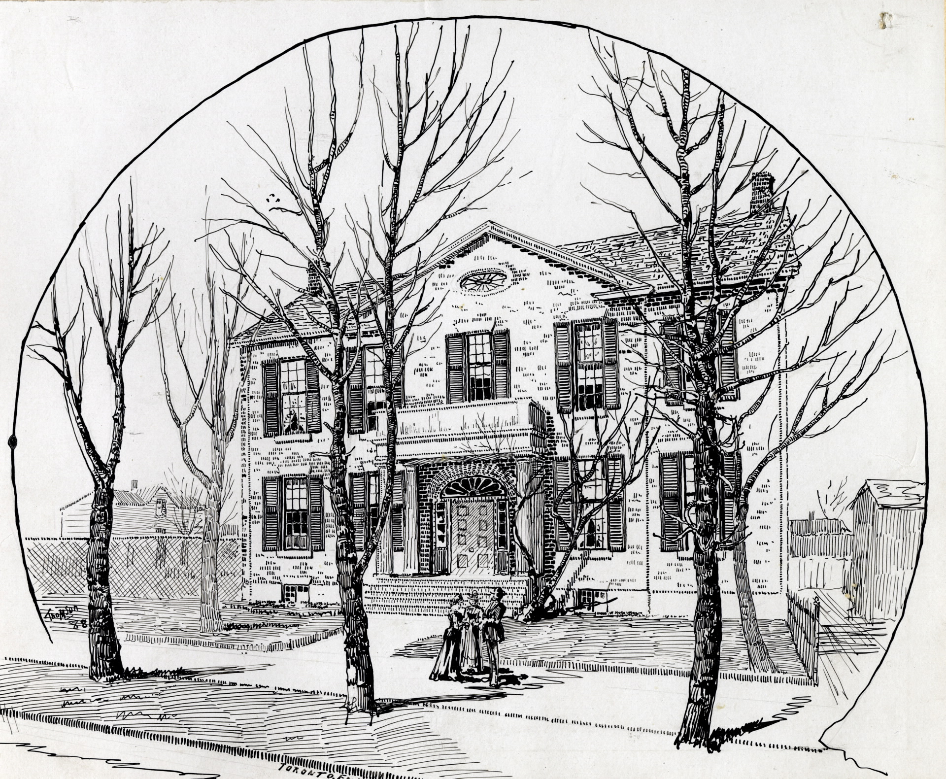 Campbell, Sir William, house, Adelaide St. E., n. side, head of Frederick St.; moved 30 March 1972 to Queen St. W., n. side, betw. University Ave. & Simcoe St